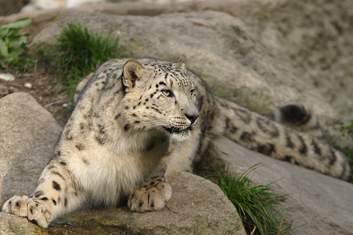 A Snow leopard (uncia uncia), photo taken 2004 by Bernard Landgraf